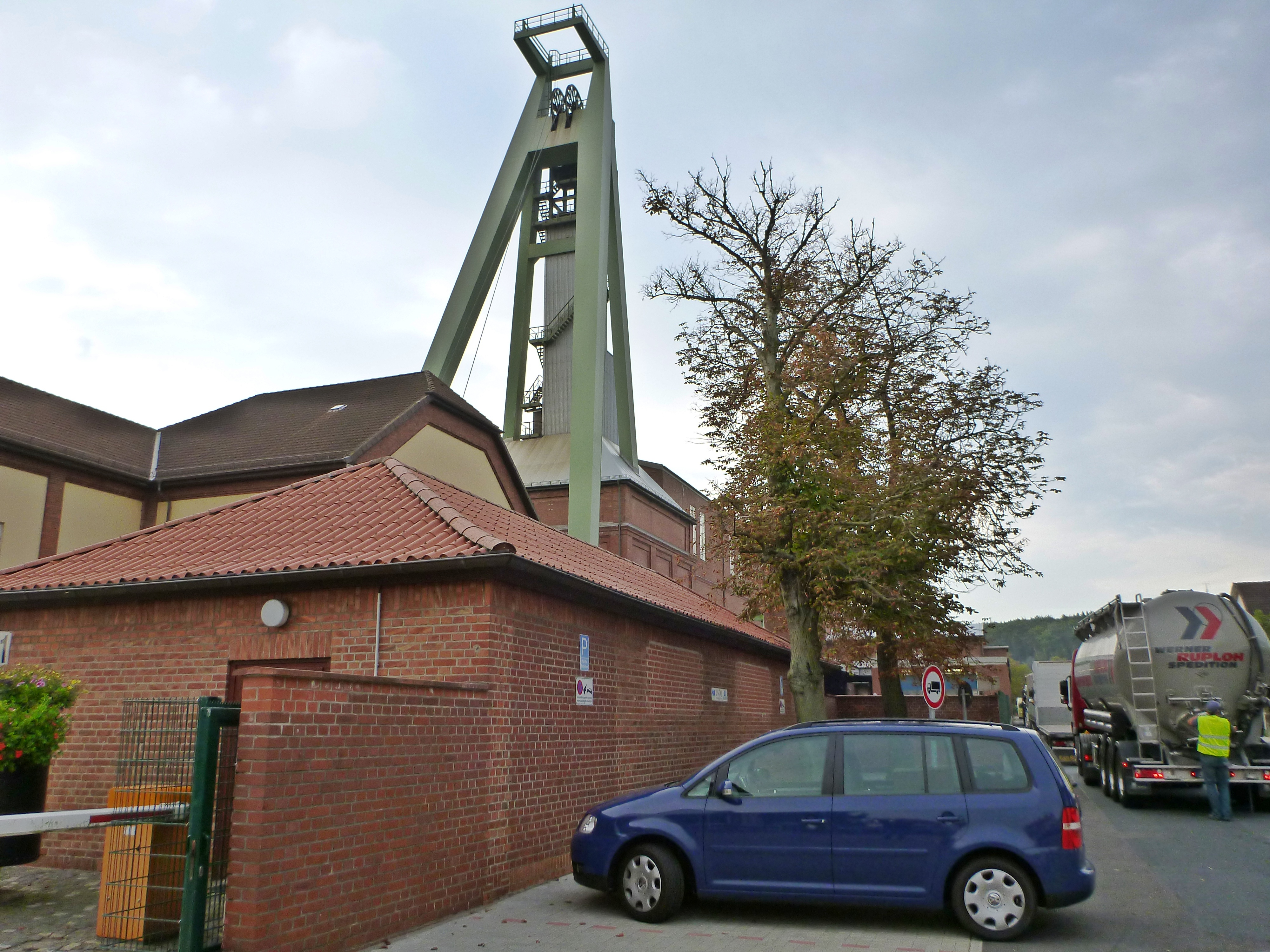 Mine head tower of the salt mine in Grasleben